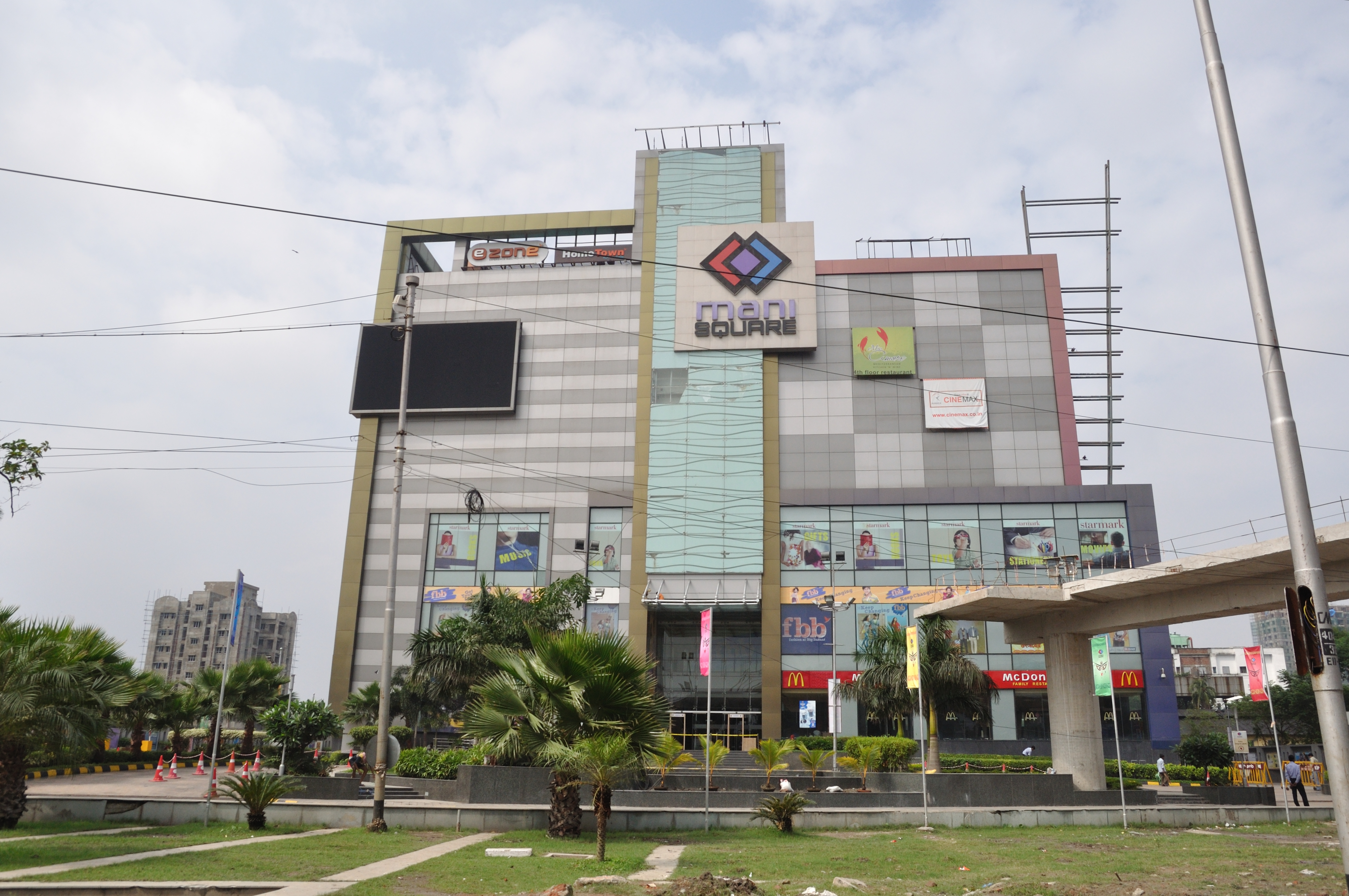 The Mani Square shopping mall on the Eastern Metropolitan Bypass.